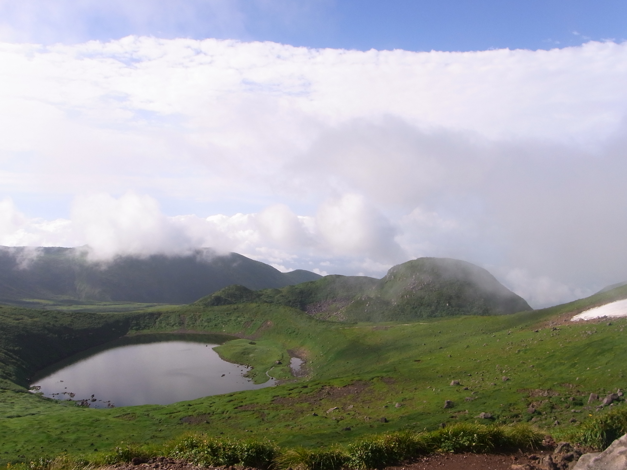 Lake Chokai seen from the NNE in Mount Chokai. Nabemori lava dome on the right.